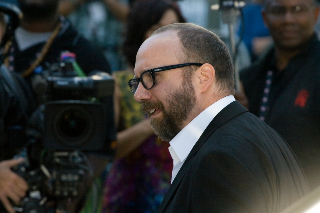 At the premiere of "Barney's Version", directed by Richard J. Lewis, during the Toronto International Film Festival, 2010.